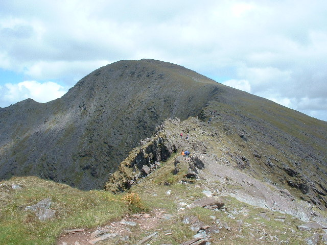 Carrauntoohil. A clear view of Ireland's highest mountain (1039m) from the southwest approach. (The Kenmare Walking Festival organisers had arranged such a grand sunny day!)